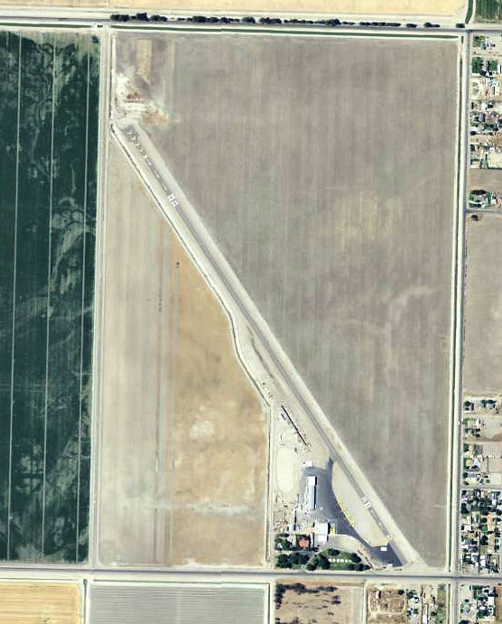 USGS digital orthophoto of Corcoran Airport in California